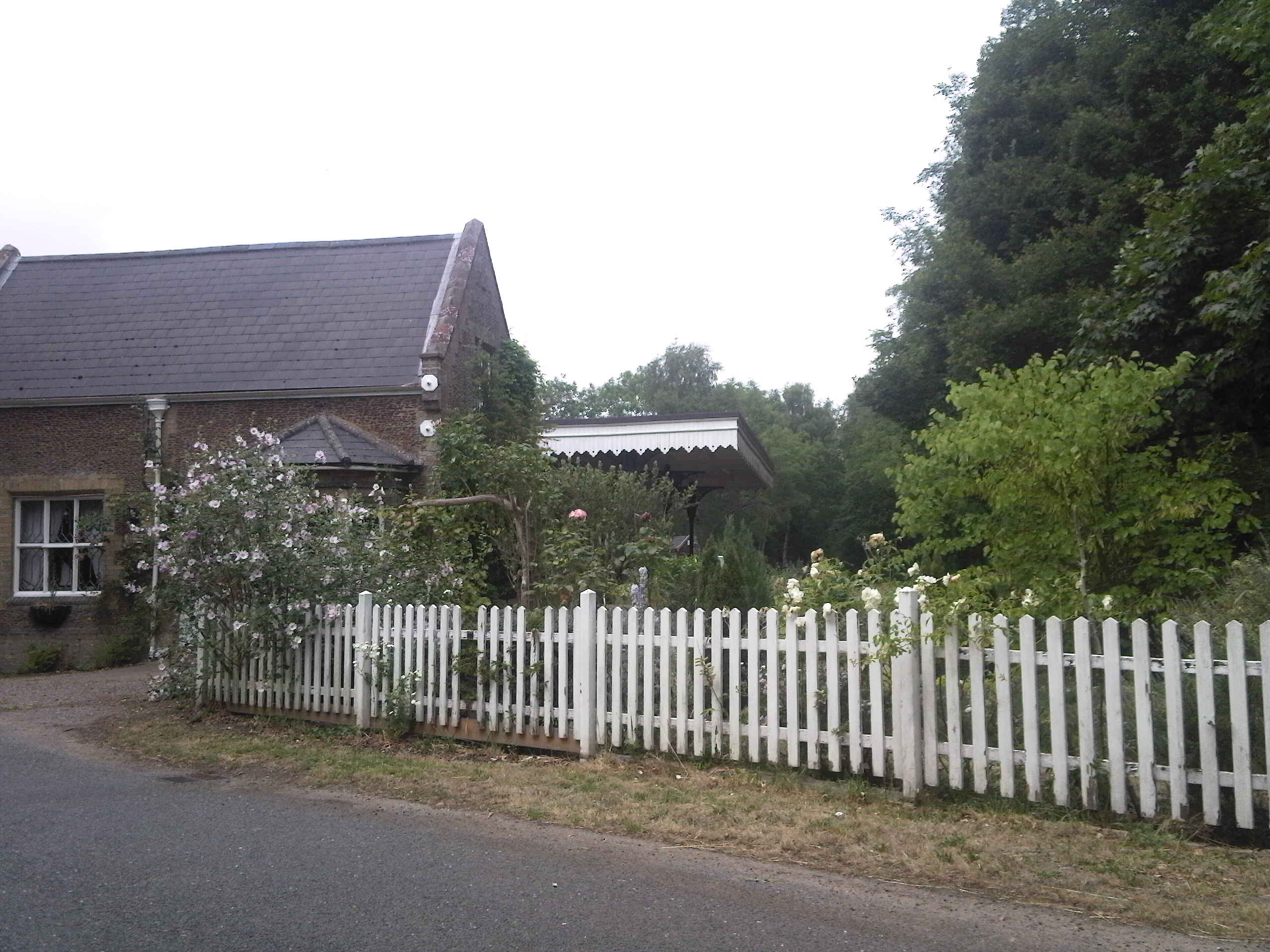 The closed Narborough and Pentney station from former level crossing